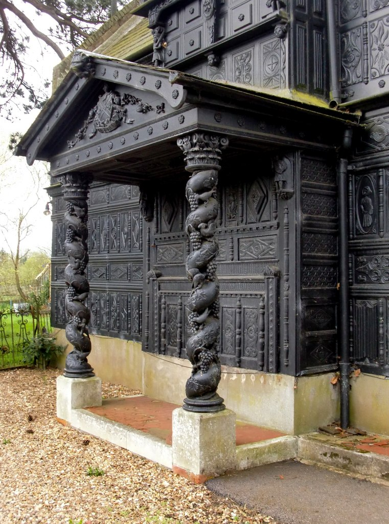 Lodge at the gates of Hall Barn: porch with 'barley sugar' columns. This lodge at the gates to Hall Barn is a curious little folly, which Professor Pevsner (in the Buckinghamshire volume of 'The Buildings of England') describes as follows: 'Its surfaces are encrusted with panels which originally formed Gothic bench ends, Early Renaissance panelling from walls or bedsteads, etc'.